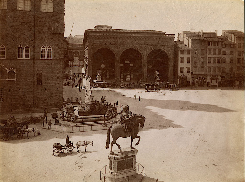 Giacomo Brogi, Piazza della Signoria, Florence, c. 1873–1881. Brogi (1822–1881), who took up a studio in Florence in 1863; however, David is not visible here, having already been moved from its placement in front of the Palazzo.